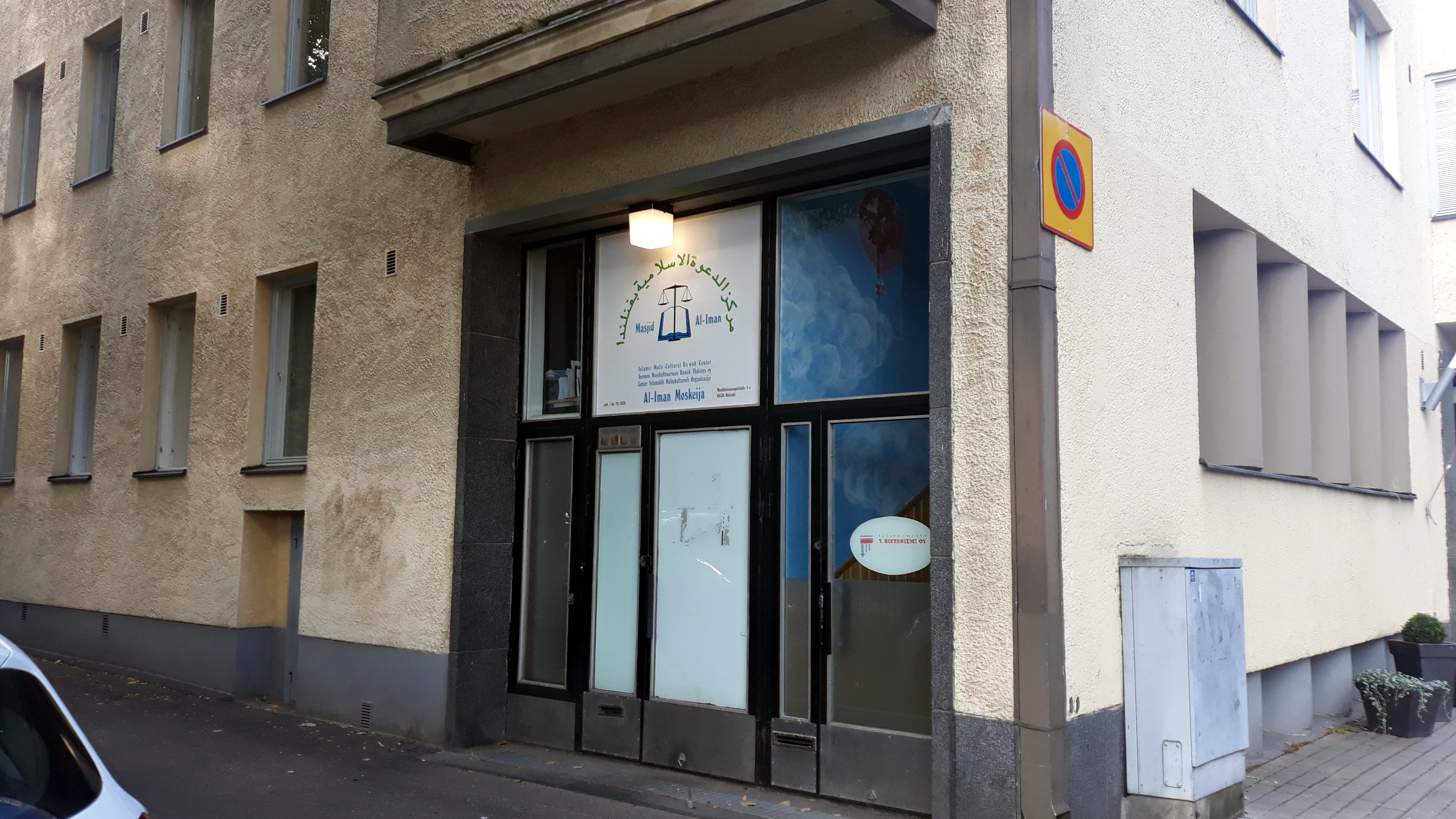 The entrance to the Al-Iman Mosque of the Islamic Multicultural Da'wah centre in Munkkiniemi, Helsinki.